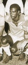 Brazilian footballer Didi (Waldir Pereira) before the starting of the match Brazil - Paraguay, Buenos Aires, Copa America 1959